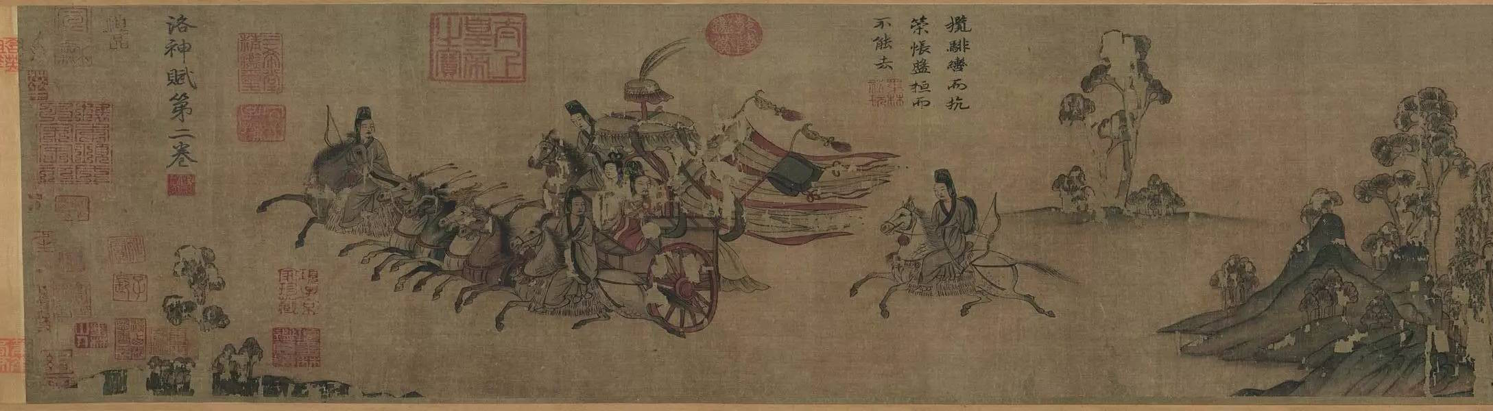 Goddess_of_luo_shui